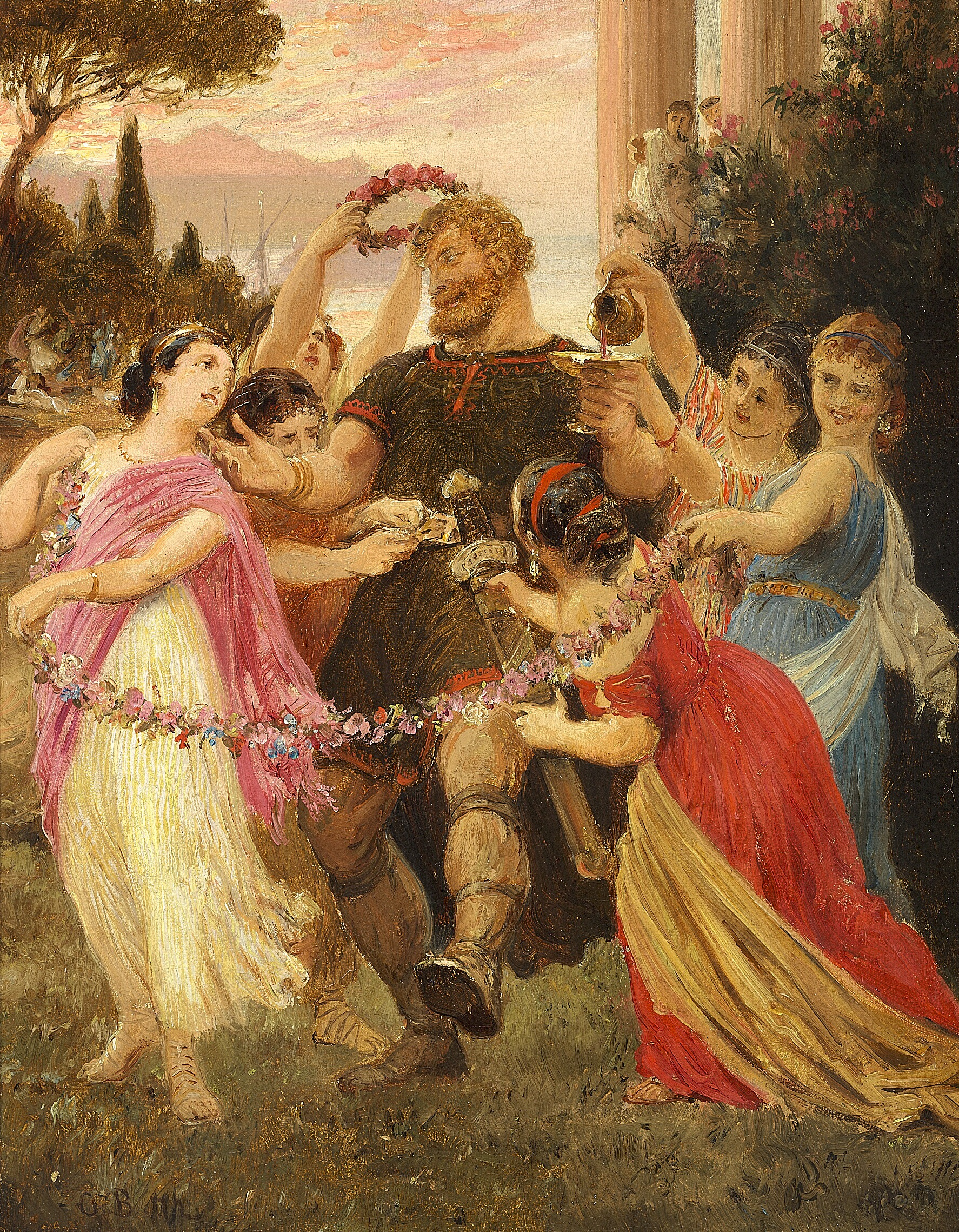 This is one of eight studies Bache made around 1872 as a proposed series of decorations for the foyer of the Royal Theatre in Copenhagen. The studies showed scenes from popular works played in the theatre. The proposal was not taken up. The lot comprised all of the eight studies.